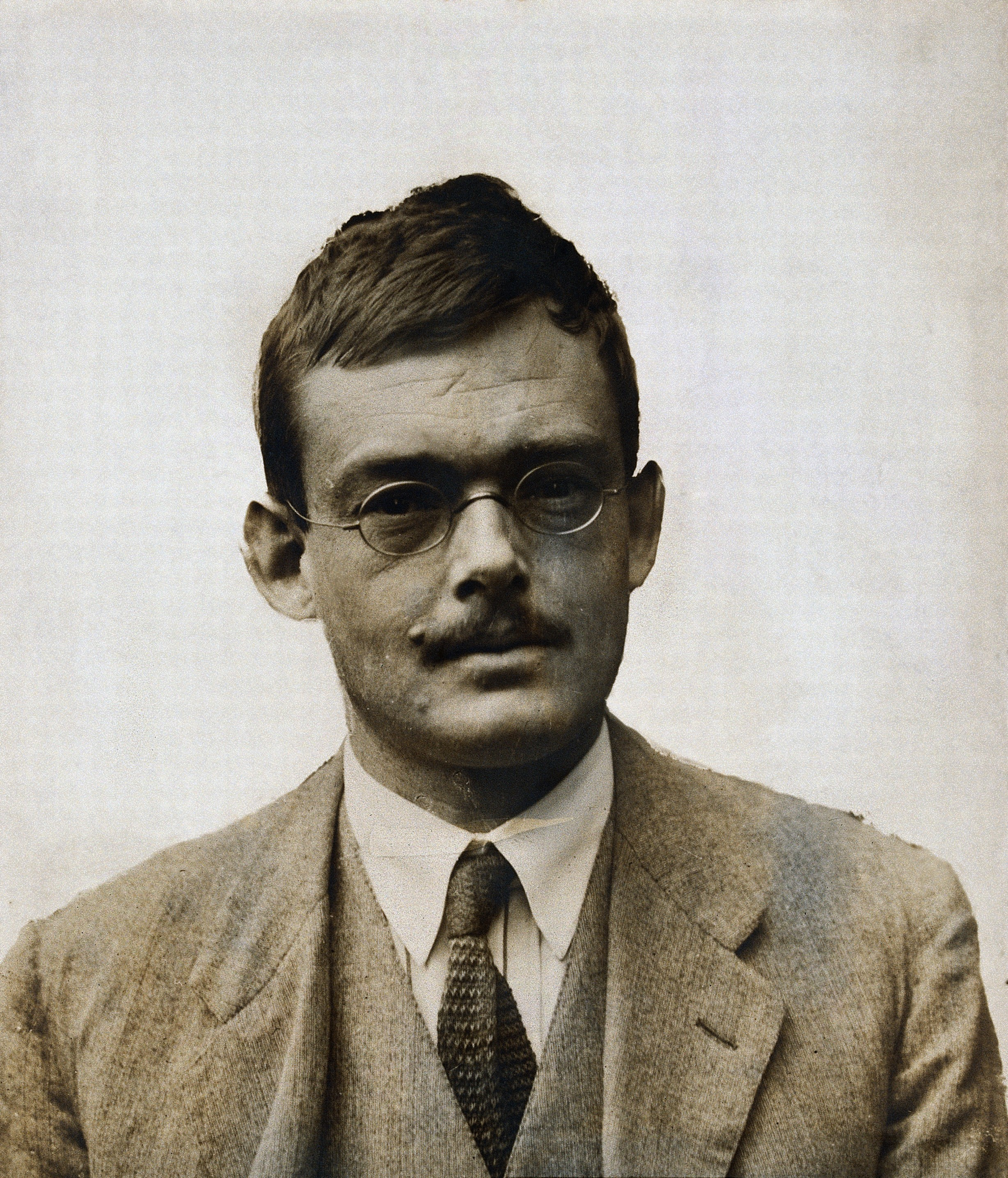 Patrick Alfred Buxton. Photograph. Iconographic Collections Keywords: portrait photographs